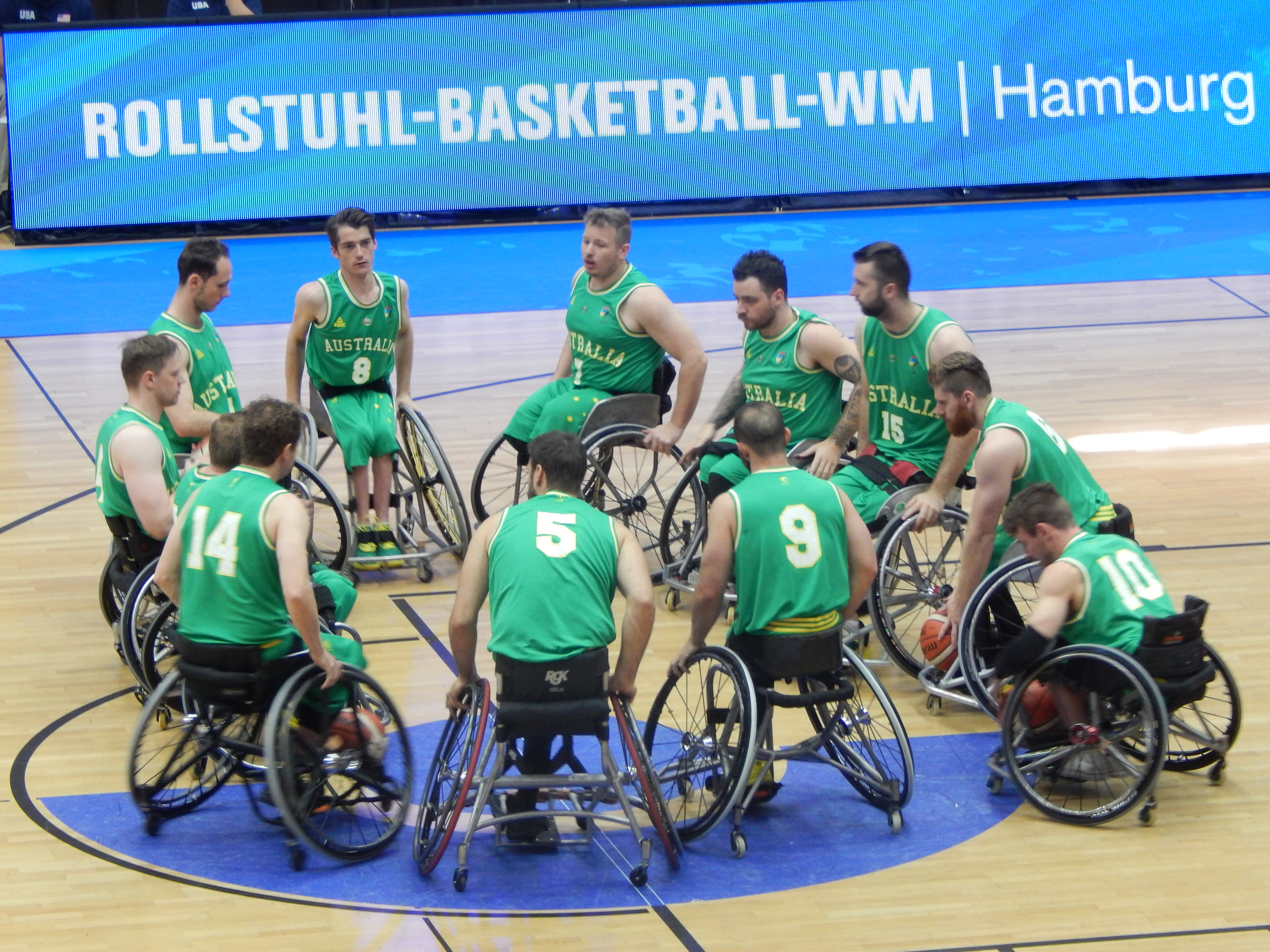 Australian Rollers at Hamburg 2018